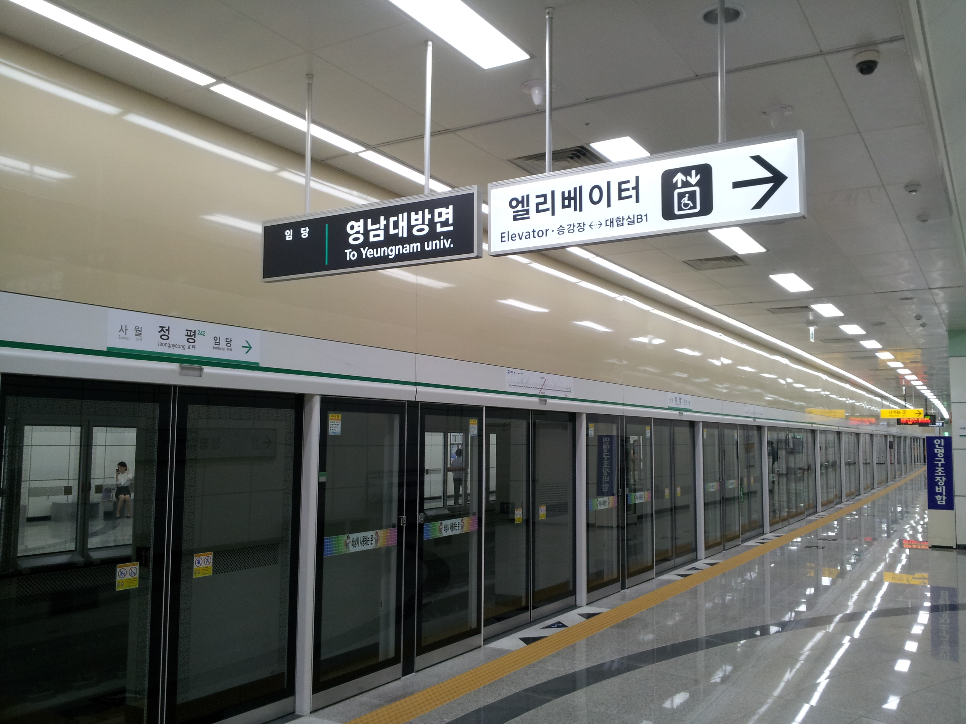 Jeongpyeong Stn.